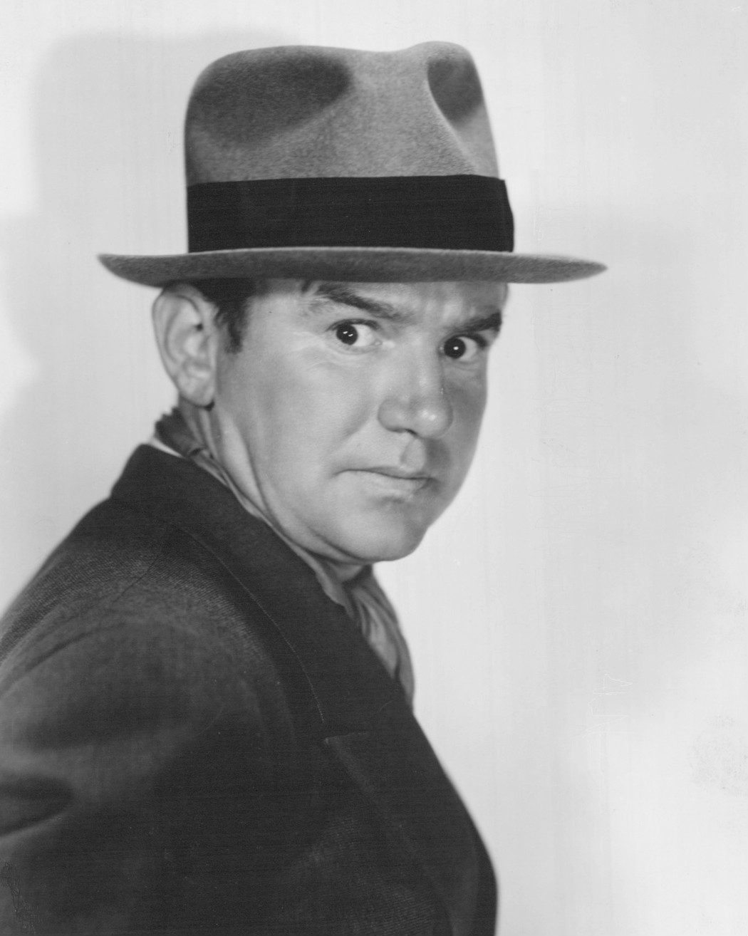 Photo of Ted Healy.